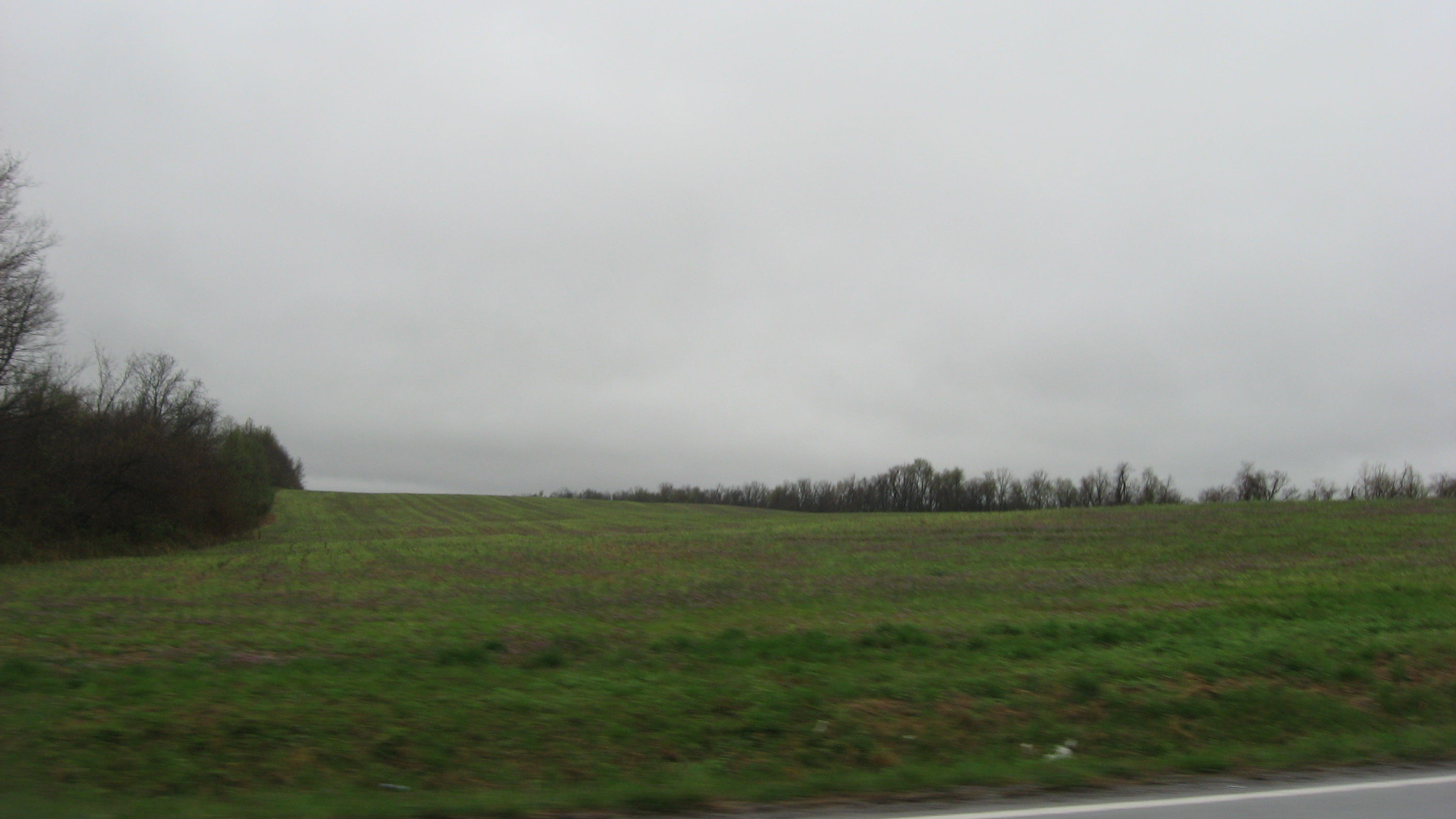 Looking southward from Illinois Route 146 midway between Rosiclare and Elizabethtown in Stone Church Precinct, Hardin County, Illinois, United States. In the distance is the Orr-Herl Village Site; an important archaeological site, it is listed on the National Register of Historic Places.